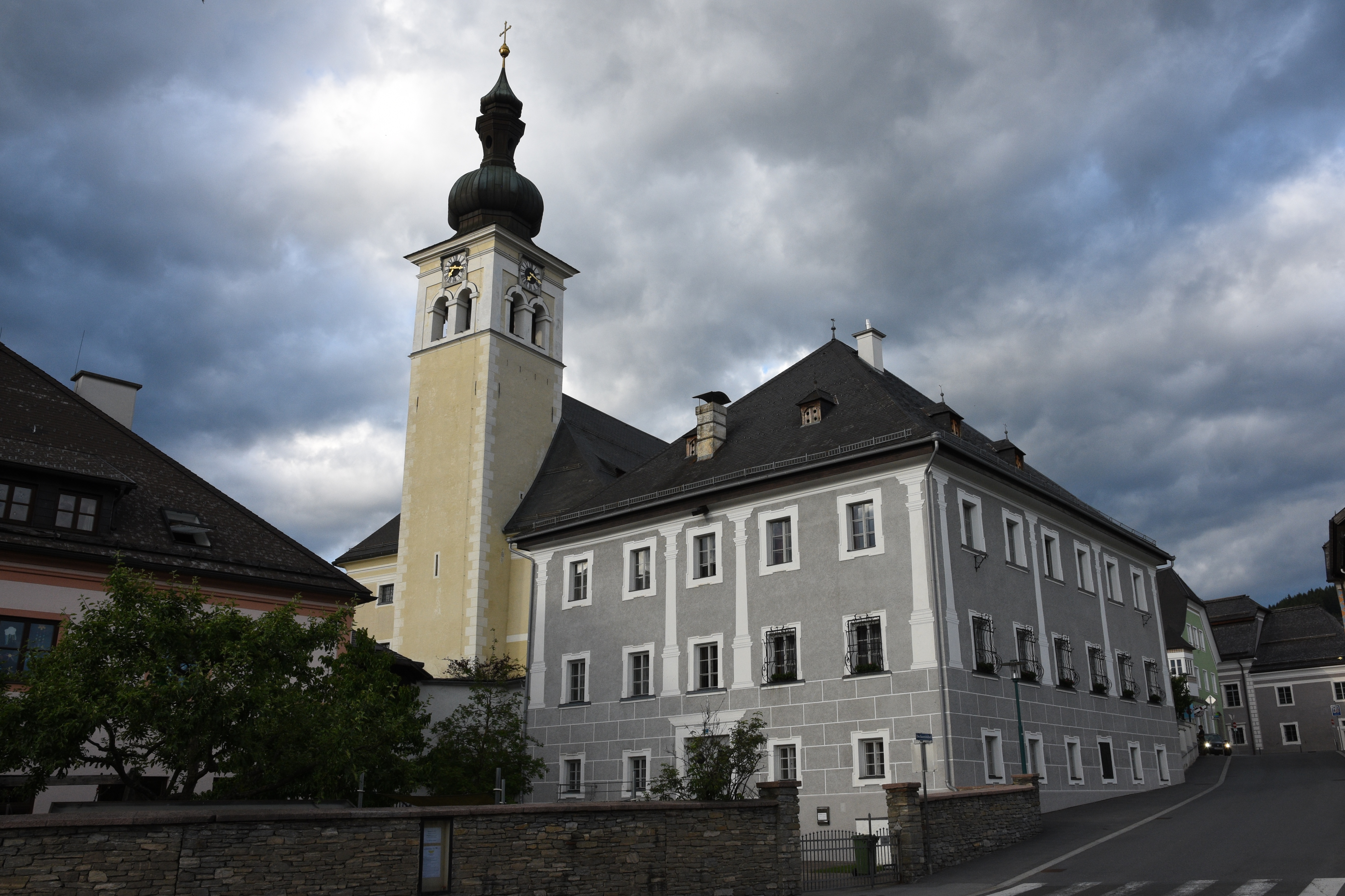 Church Dekanatspfarrkirche Tamsweg